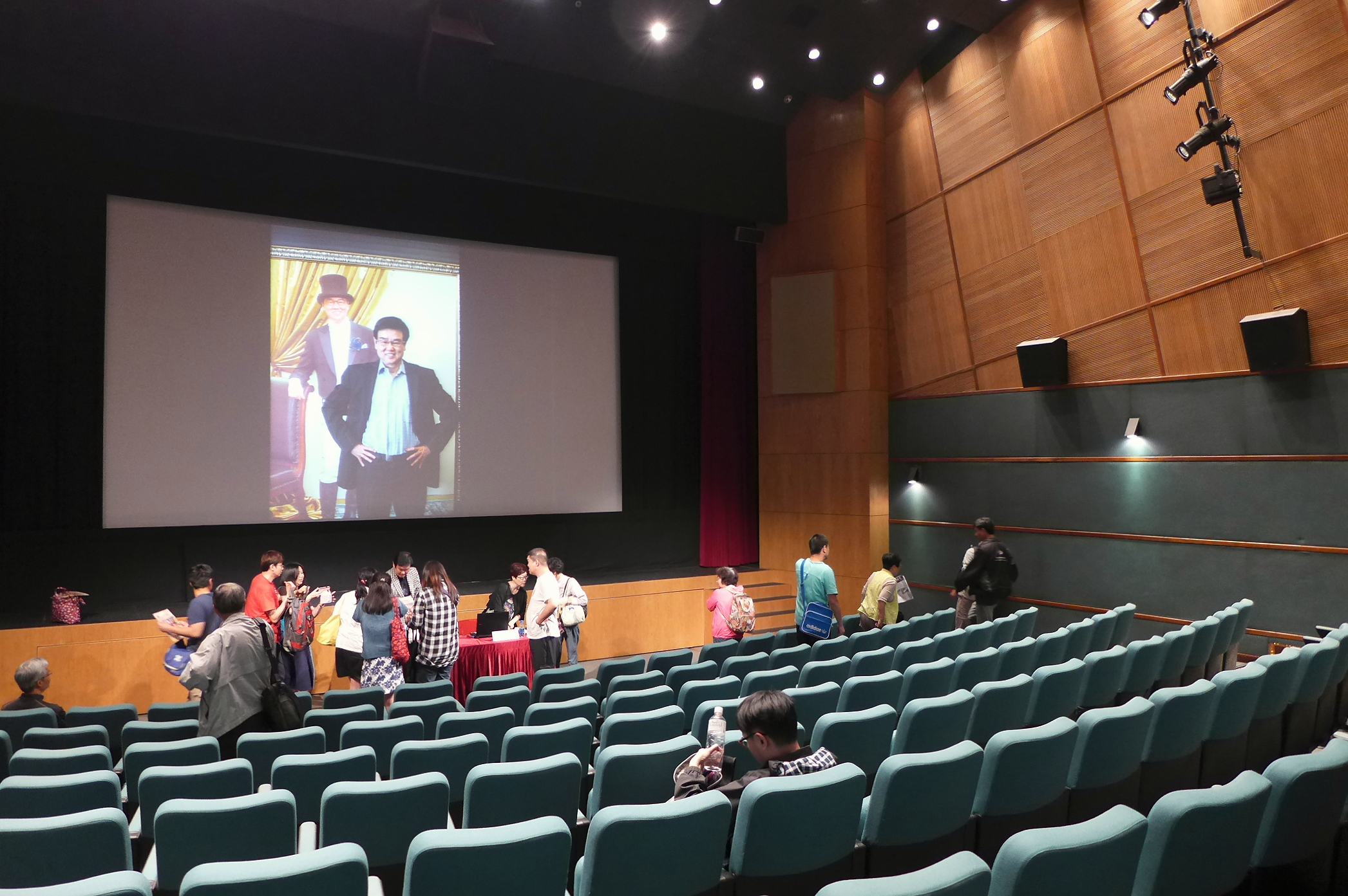 Hong Kong Film Archive Theatre